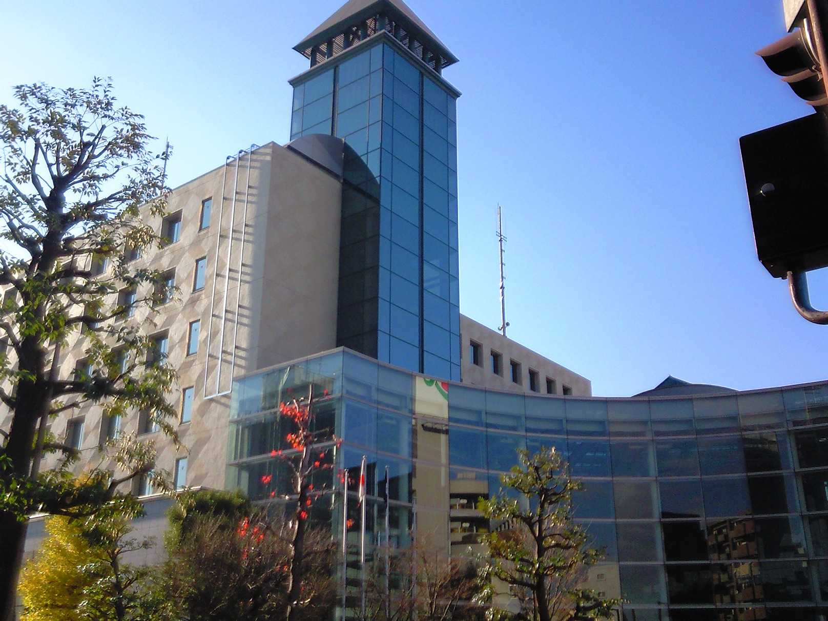 Higashikurume City Hall, Tokyo, Japan (東久留米市役所 (東京都))